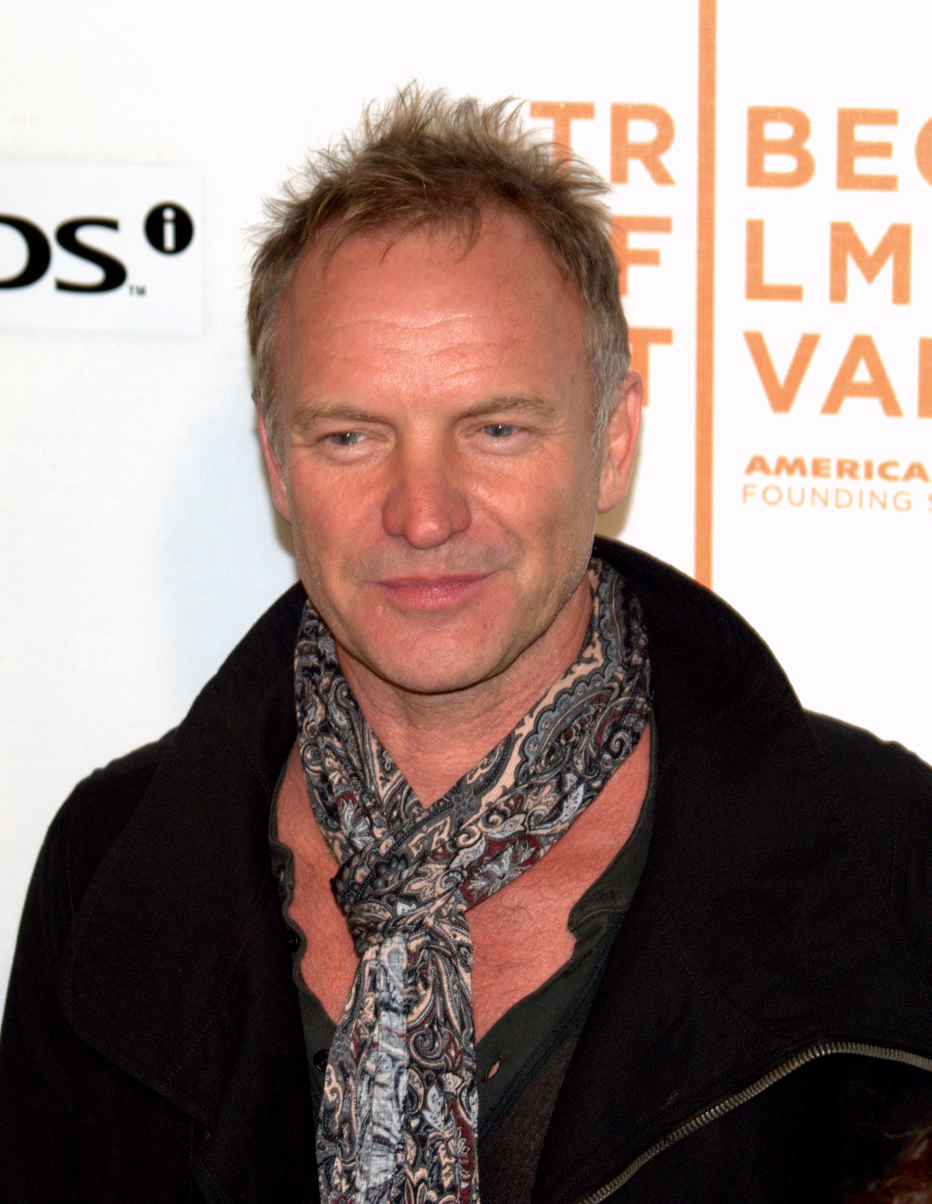 Sting at the 2009 Tribeca Film Festival for the premiere of Duncan Jones's film Moon. Photographer's blog post about this event.